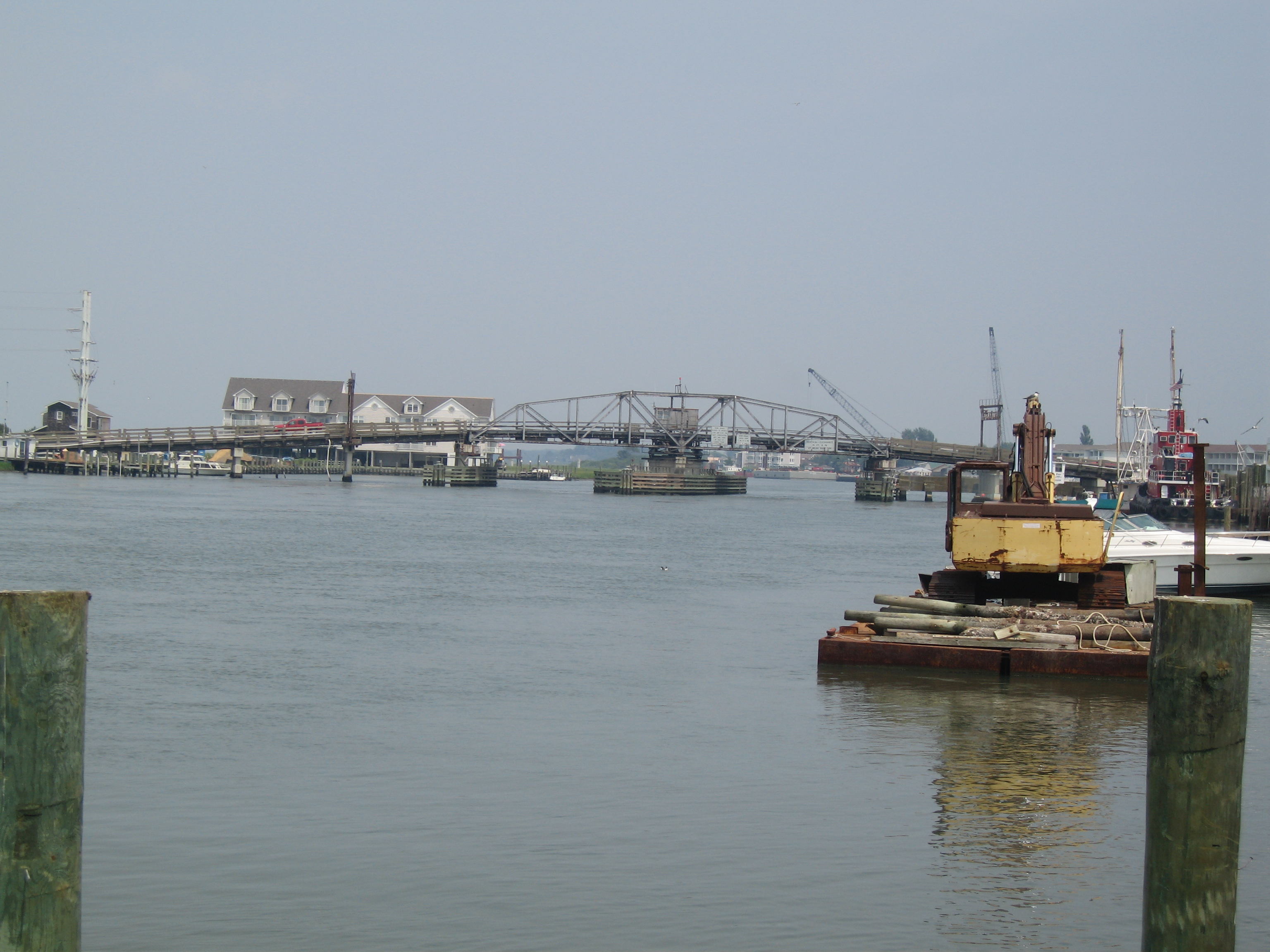 Chincoteague Channel with the Chincoteague Channel Swing Bridge in the distance. Photograph taken on the docks at Sunset Bay Villas, 6321 Captain’s Lane, Chincoteague Island, Virginia. The camera faced northeast for picture.